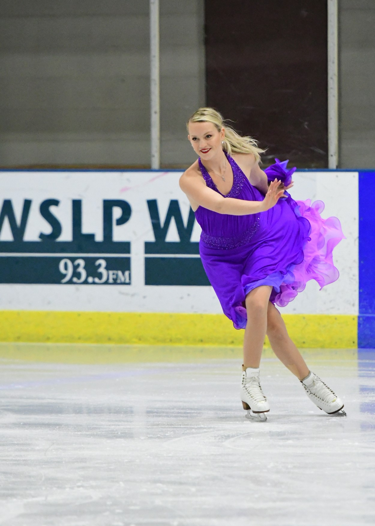 Julia Gretarsdottir at Lake Placid Dance Championships 2019